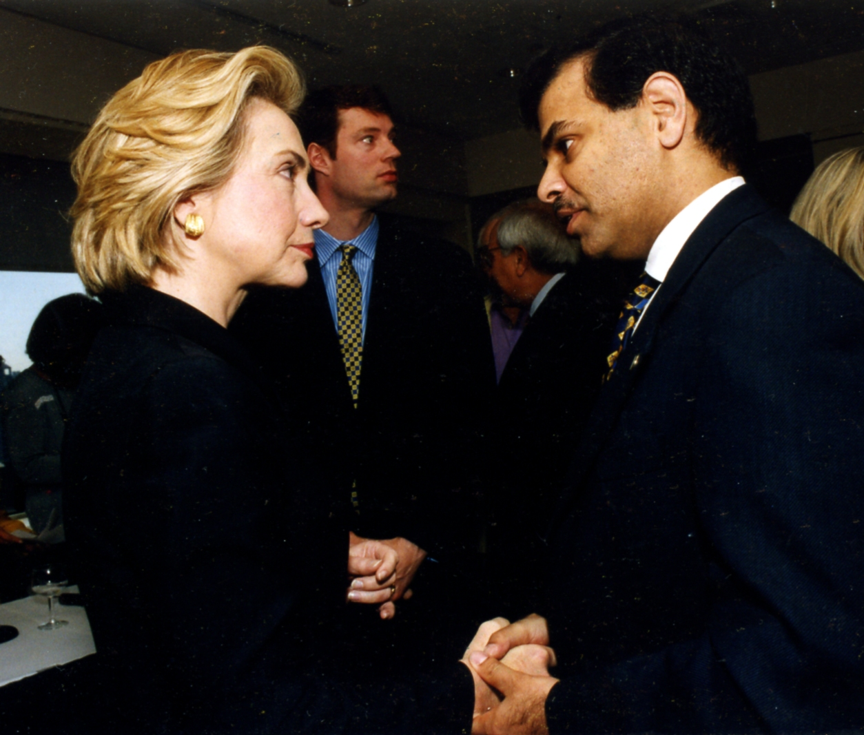 Ijaz with First Lady Hillary Rodham Clinton, July 1999